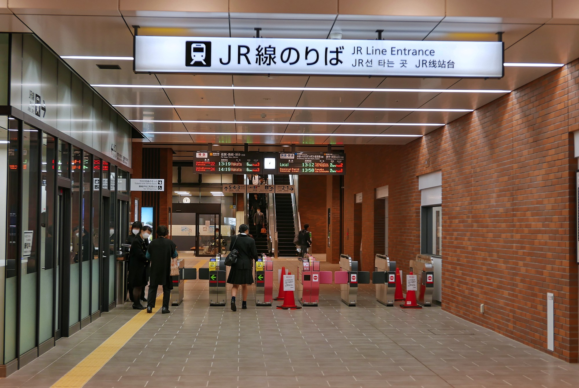 Nagasaki Station.